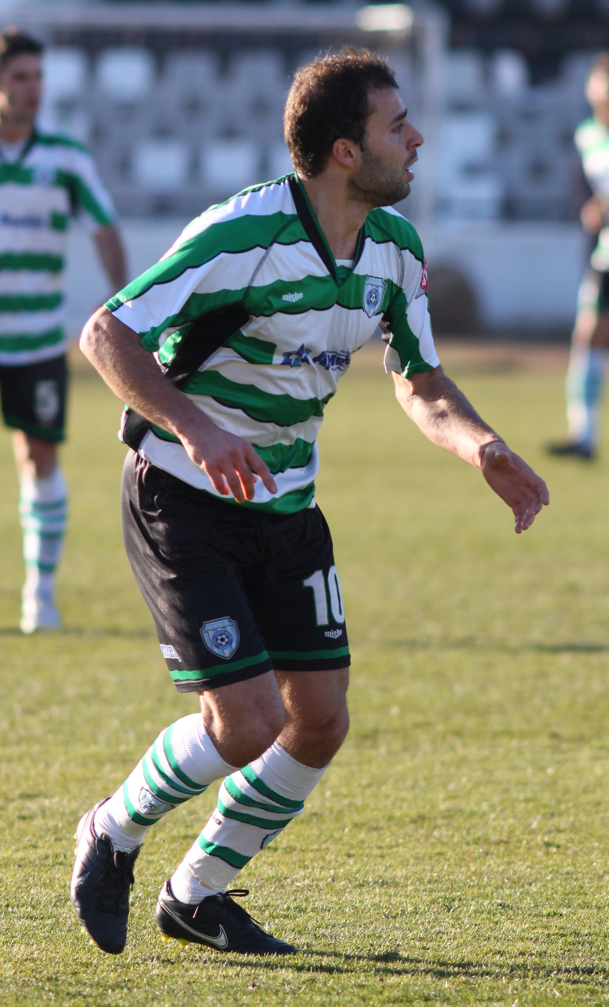 Miroslav Manolov (Bulgarian: Мирослав Манолов) (born 20 May 1985) is a Bulgarian footballer, currently playing for Cherno More Varna as a striker.